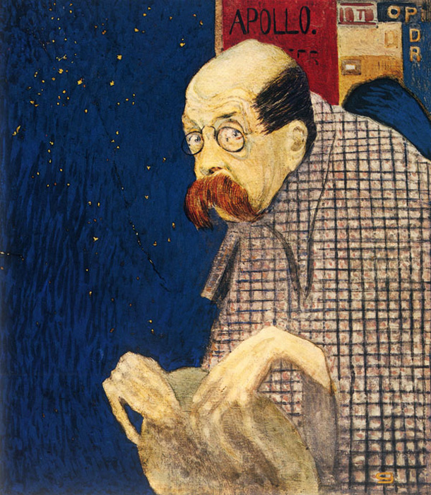 Portrait of austrian writer Peter Altenberg